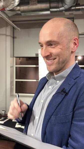 Derren Brown at Foyles, September 2018